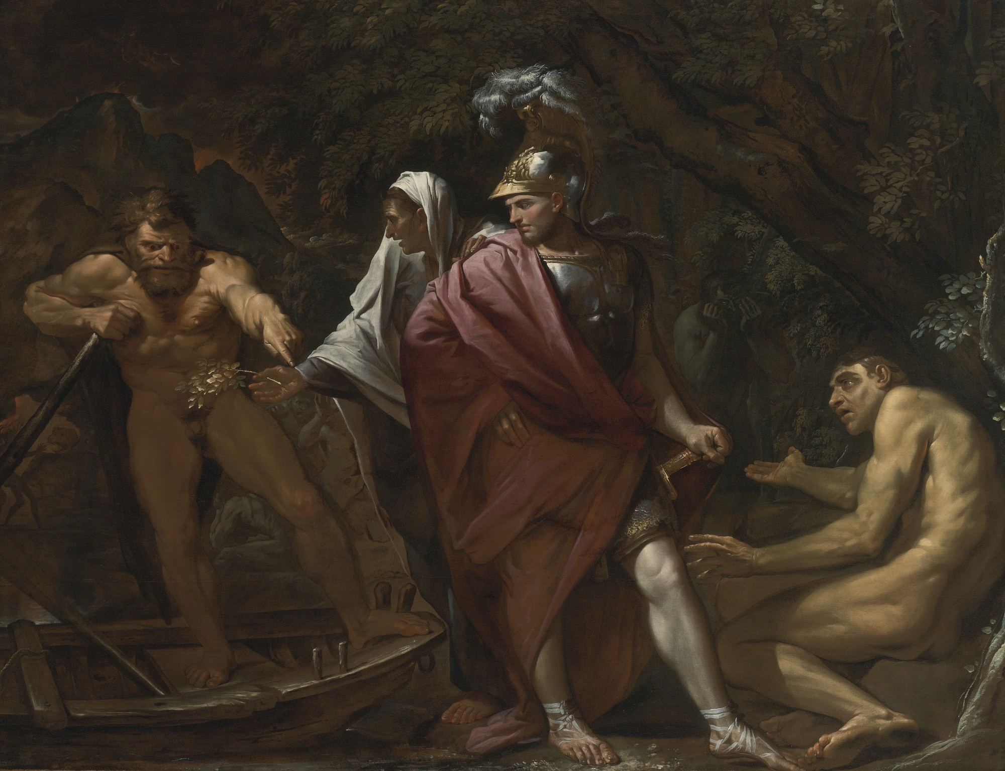 Aenas on the Bank of the River Styx